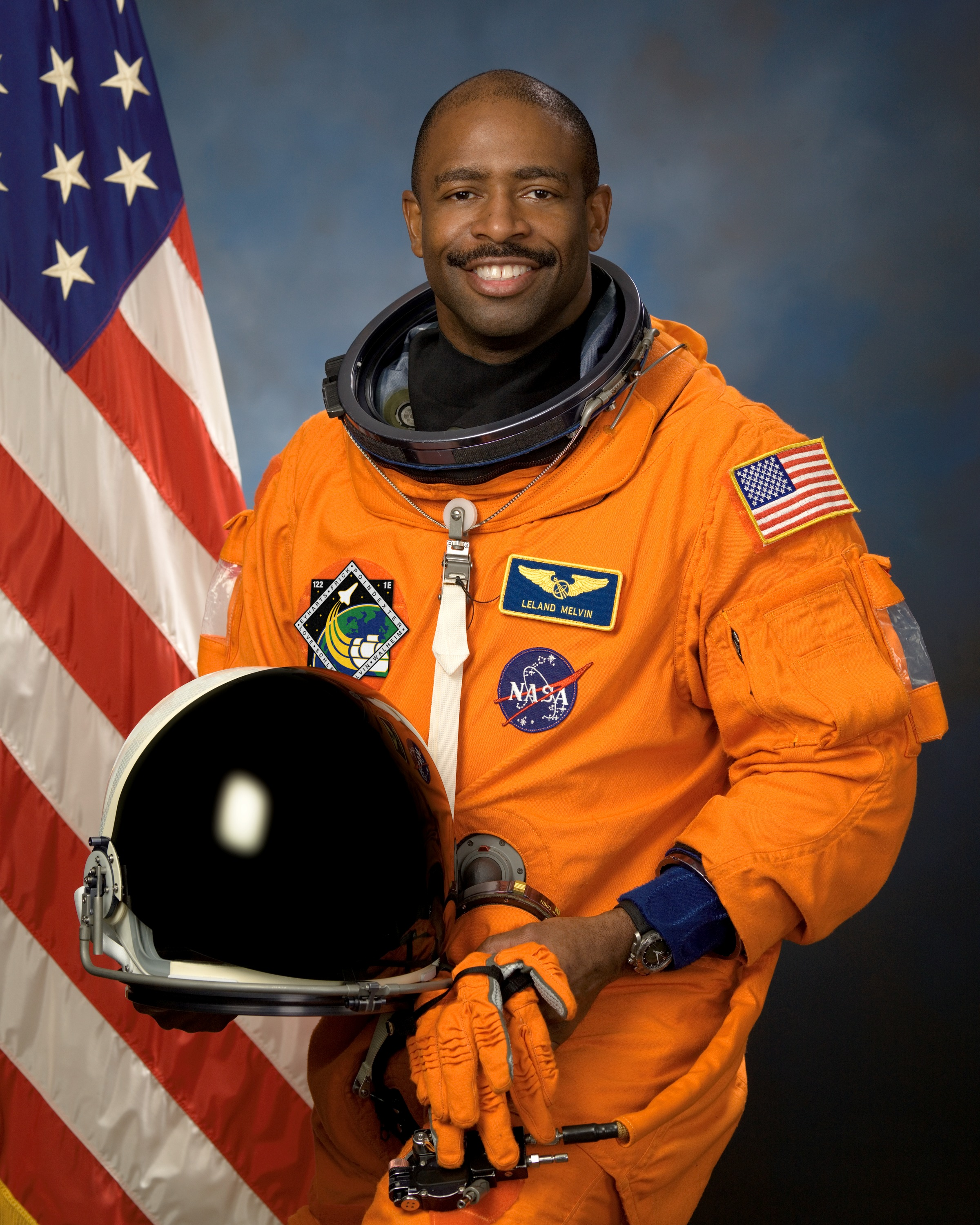 Official portrait image of NASA astronaut Leland D. Melvin, a mission specialist of STS-122.